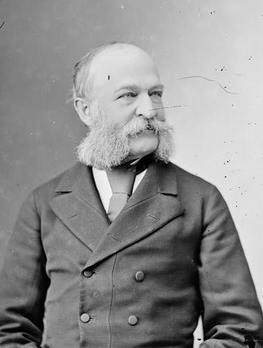 Morton, Hon. Levi Parsons of N.Y. Rep., Vice Pres of U.S.